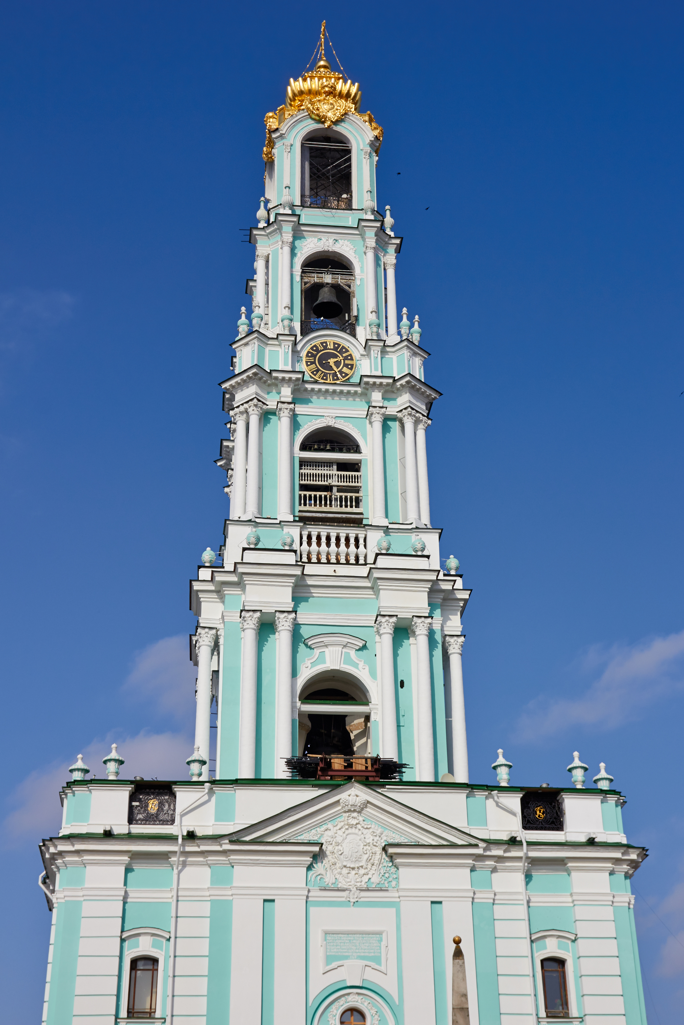 Belltower, Trinity Lavra of St. Sergius, Sergiev Posad